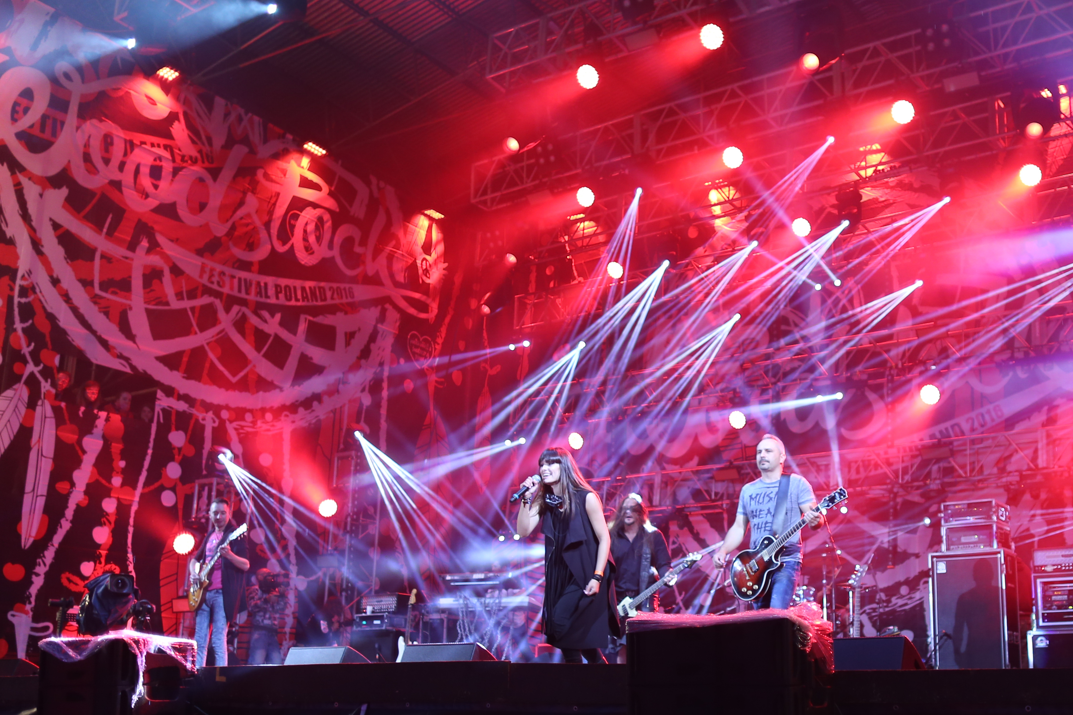 Przystanek Woodstock in 2016.